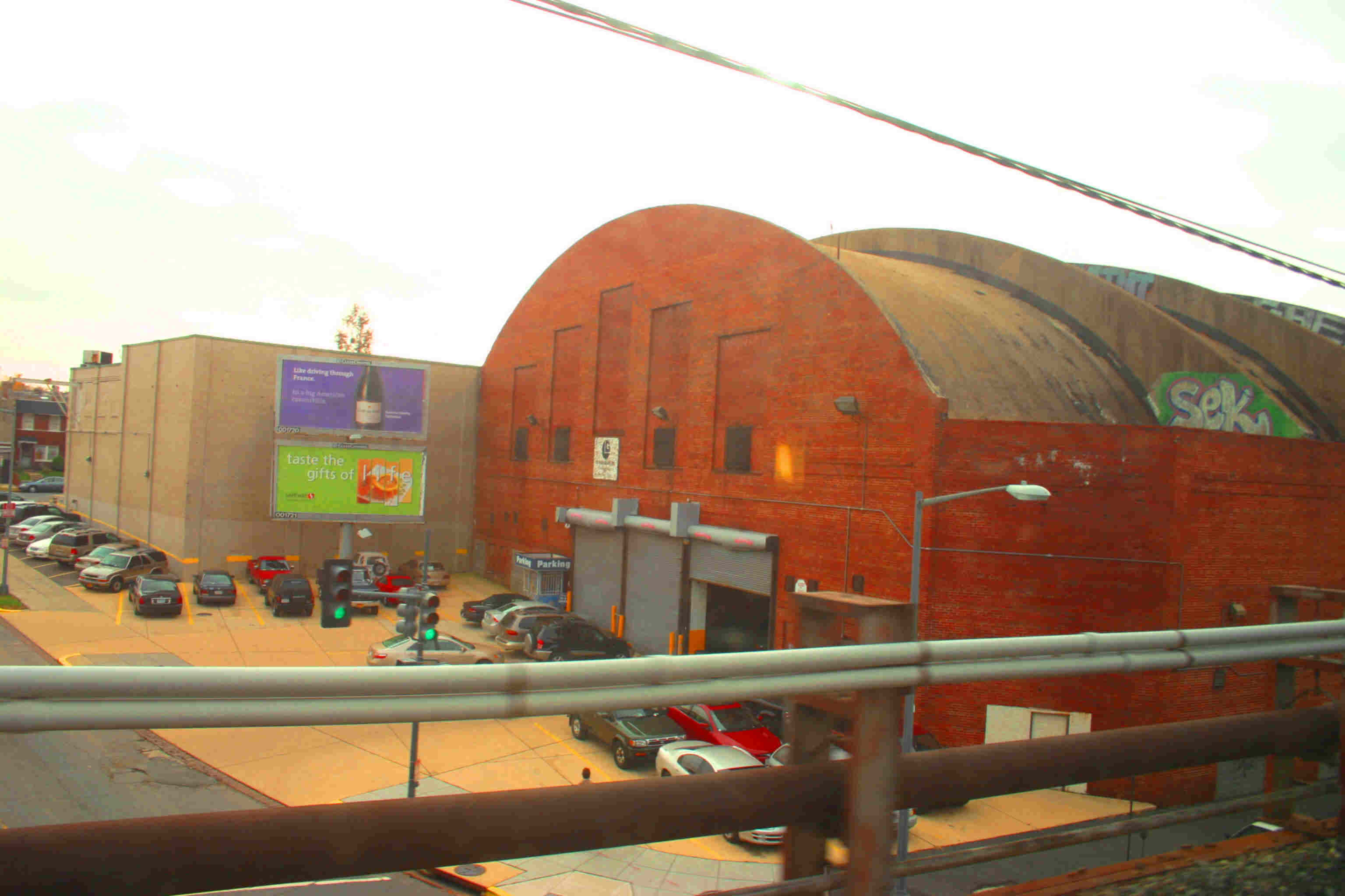 Washington Coliseum, formerly called Uline Ice Arena. View from the window of MARC Train (Penn Line North), just departed from Union Station (Washington, D.C.).